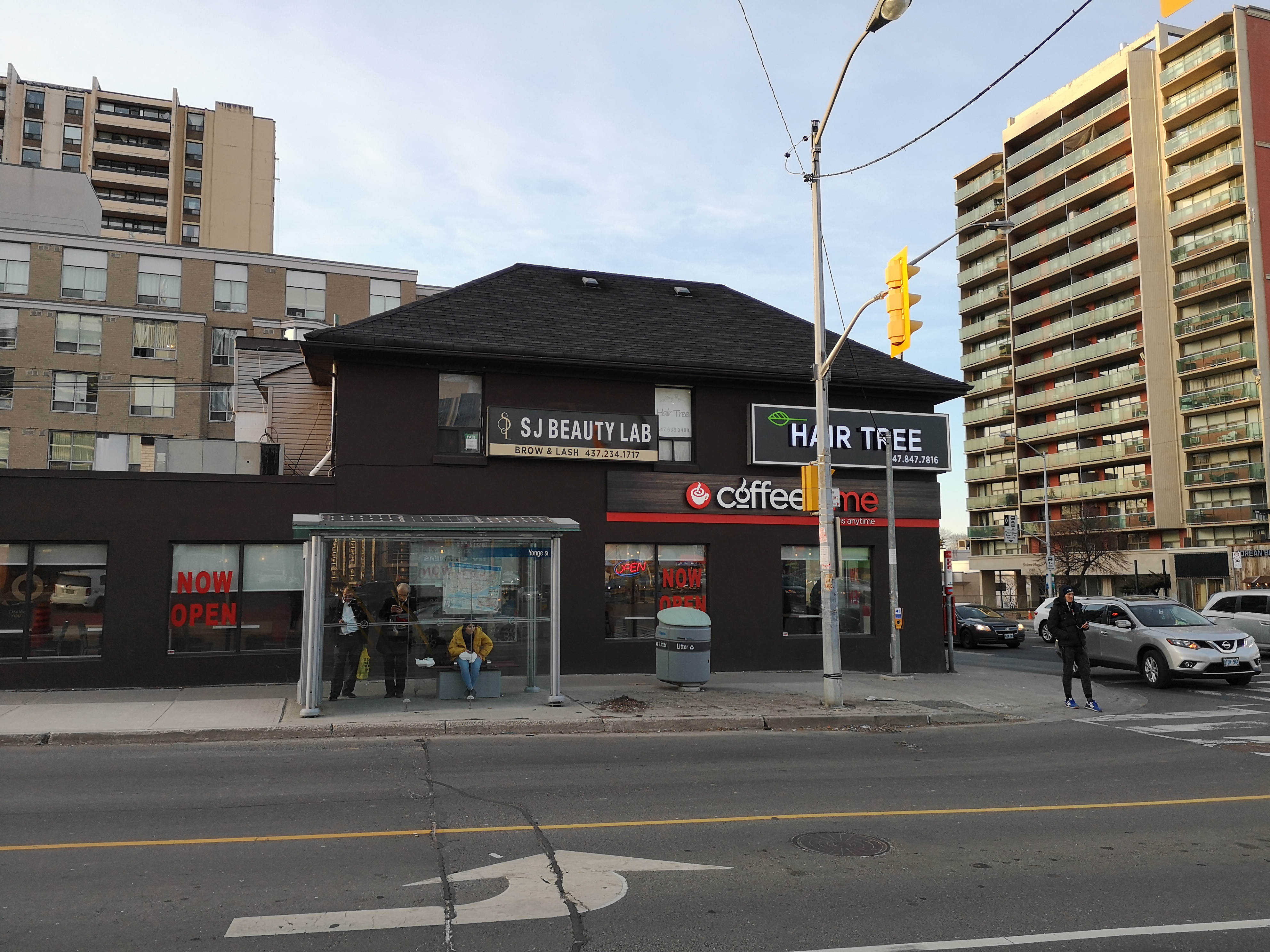 Newtonbrook Store at 5926 Yonge Street, in Newtonbrook, a neighbourhood of North York, Toronto. The building was erected in the 1850s.